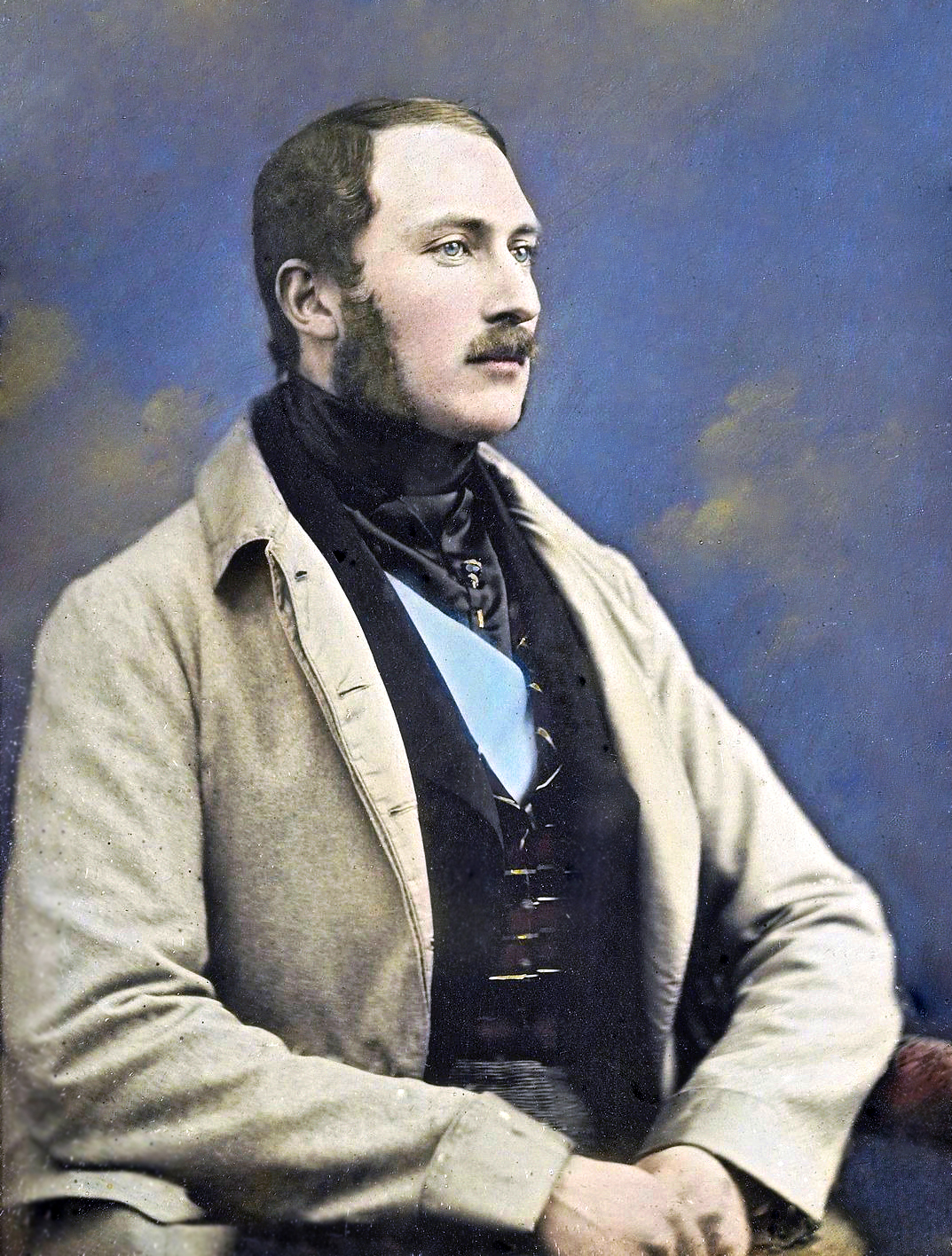 Hand-coloured daguerreotype of Prince Albert in 1848. 8.6 x 6.3 cm. Commissioned by Prince Albert